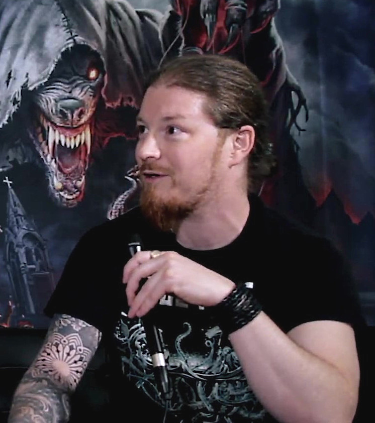 Powerwolf interview 18.05.2018 Napalm Records, Berlin Producer & Director: Janne Vuorela Filming & Editing: Karo Riikola